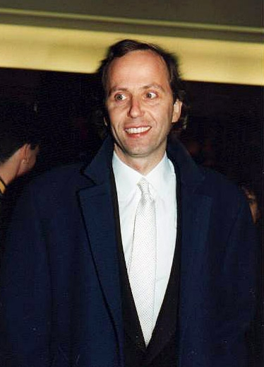 Fabrice Luchini, French actor